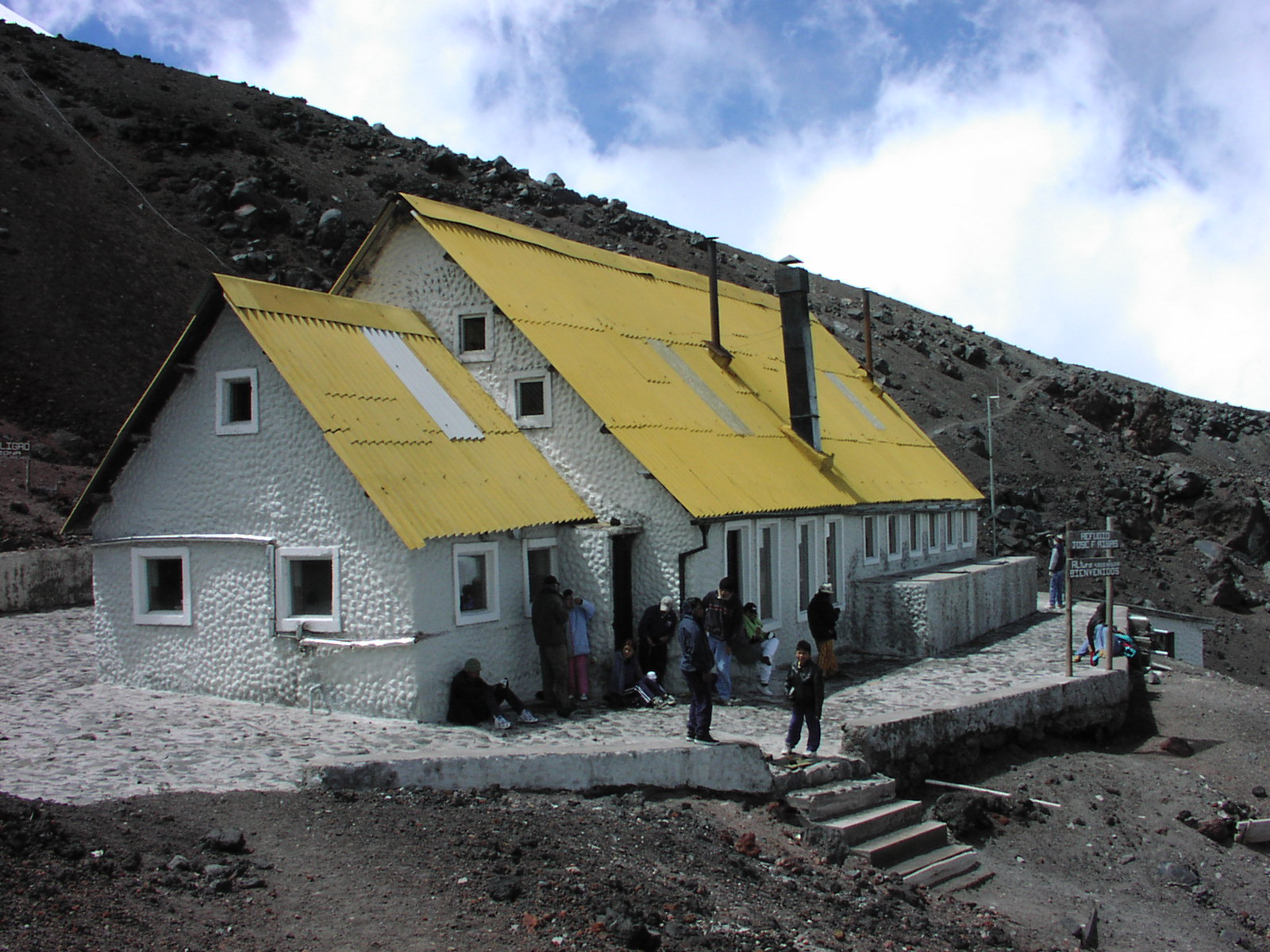 Refugio José Ribas (Cotopaxi alpine hut). Ecuador, 2002